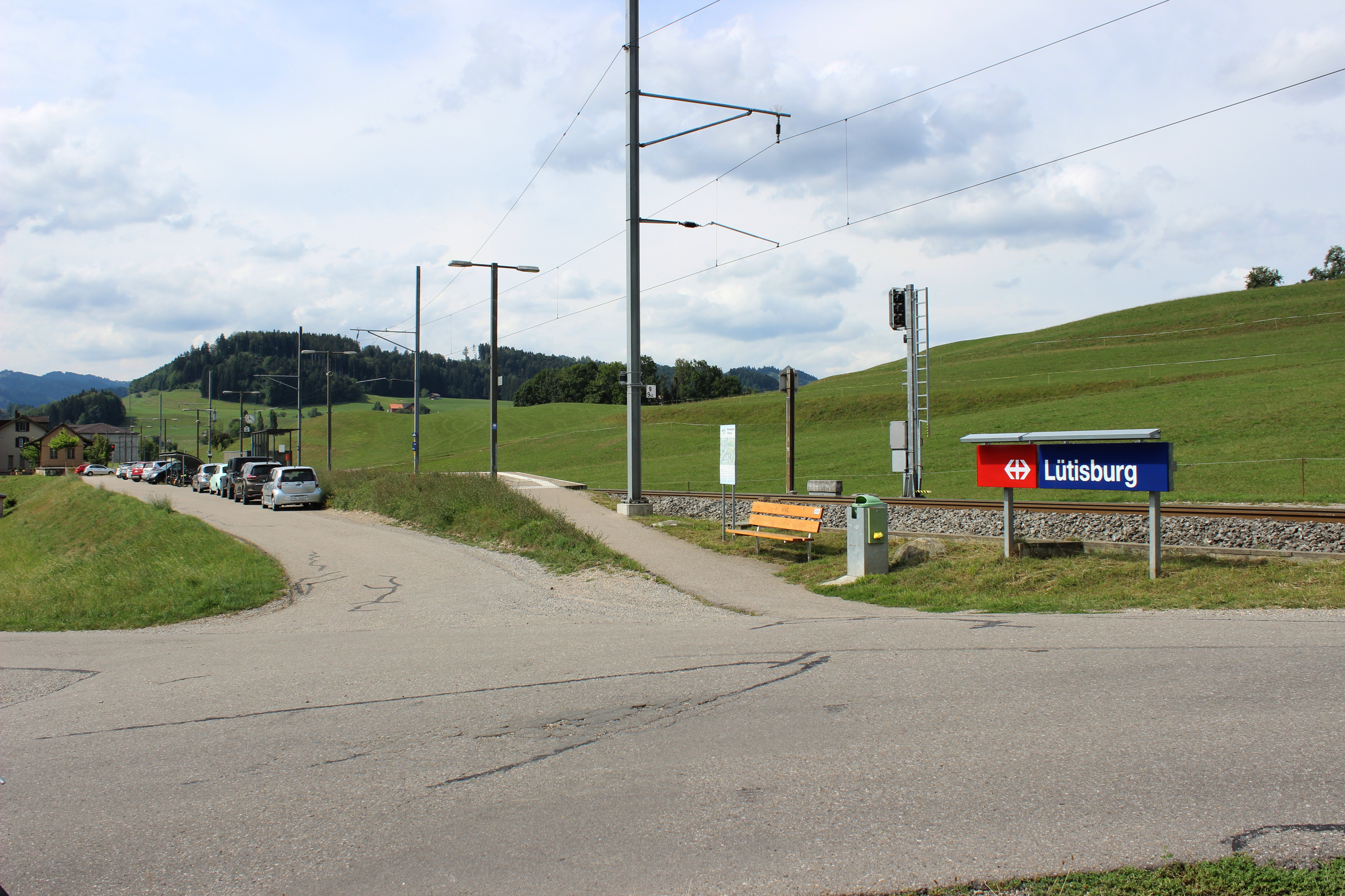 Bahnhof Lütisburg, Schweiz